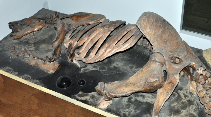 Paramylodon fossil on display in Evolving Planet exhibit at Field Museum in Chicago